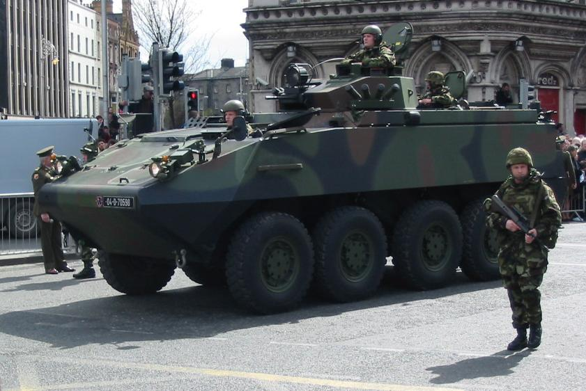 Irish Army Mowag Piranha in Easter Military Parade in Dublin, 2006. Image taken by me, no copyright.